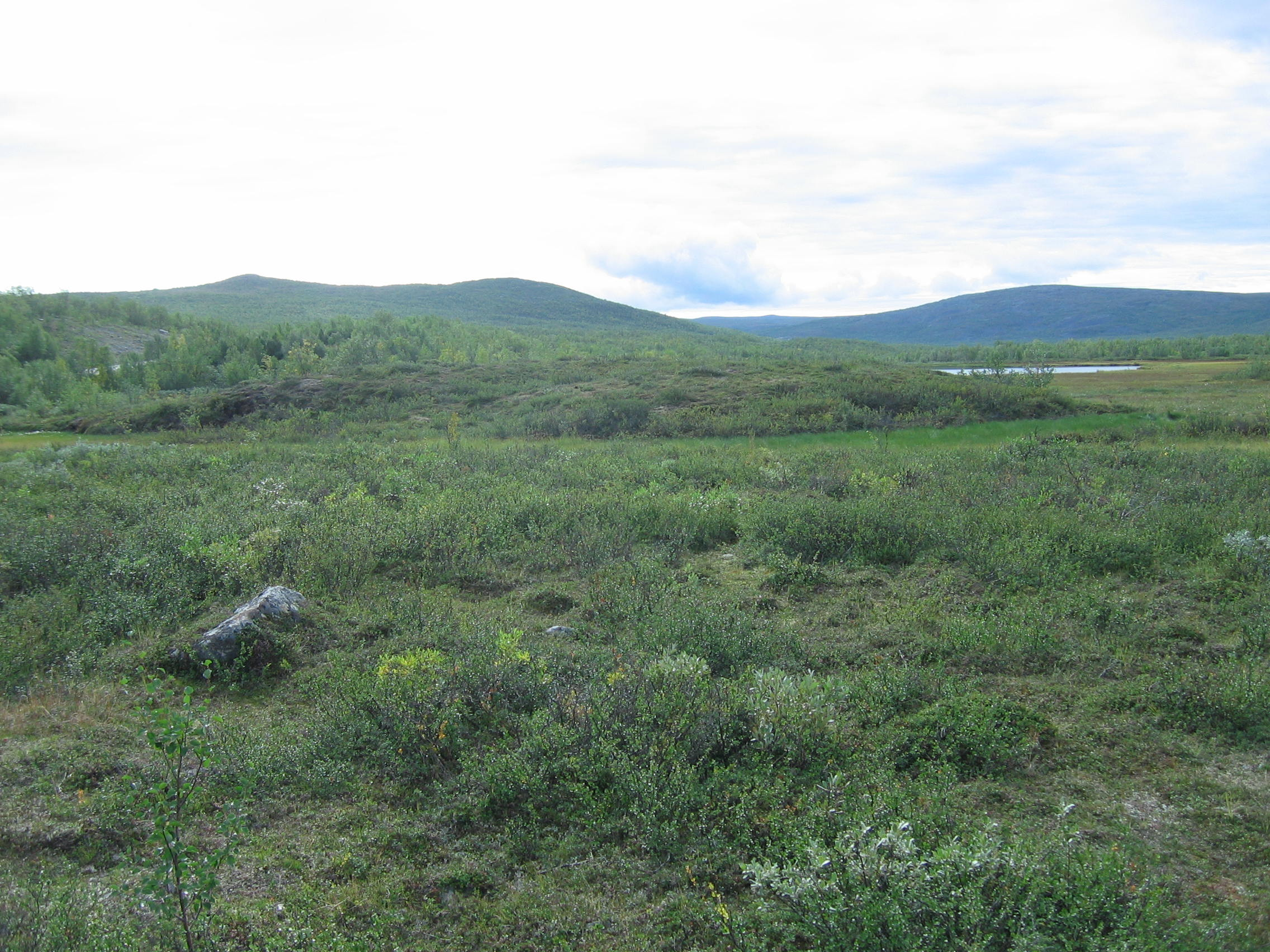 Iitto's palsa (swamp) in Enontekiö, Finland.